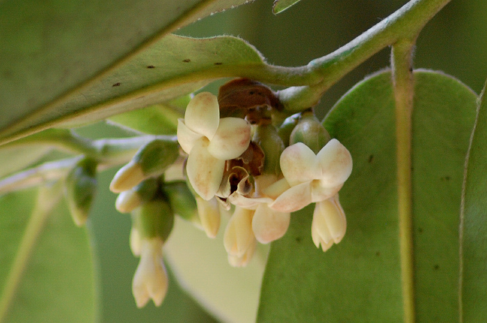 (Male?) Flowers of Diospyros philippinensis from Ebenaceae. The only place where this plant can be seen in the city.